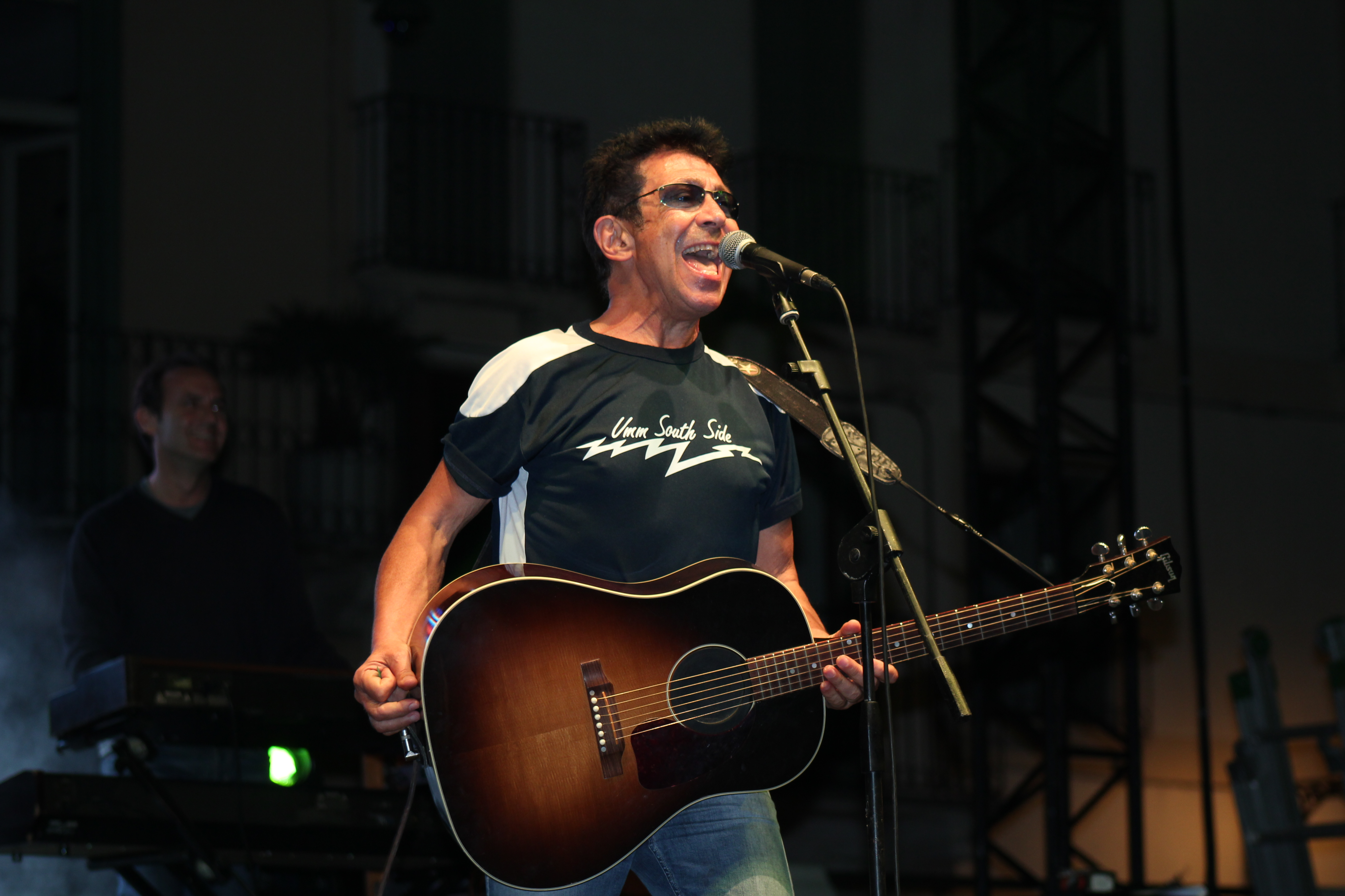 Edoardo Bennato in 2013